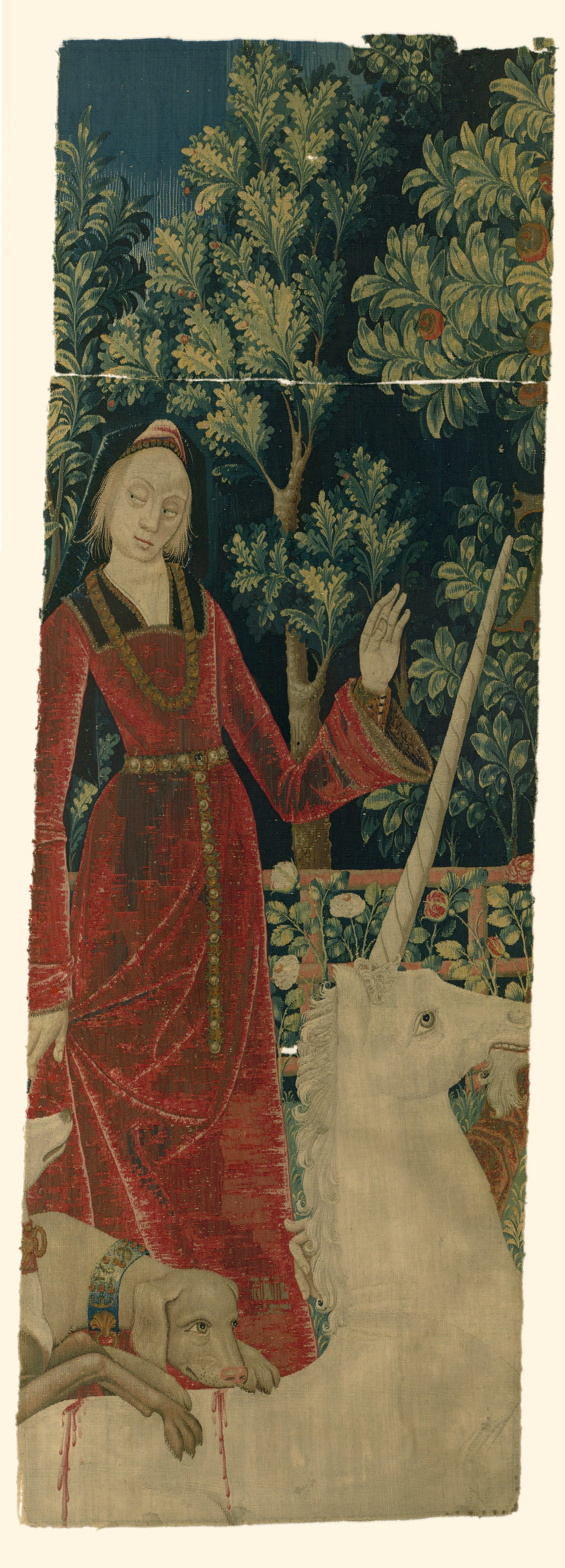 The Hunt for the Unicorn: The Mystic Capture of the Unicorn, fragment . 198.1cm x 64.8cm. Wool warp with wool, silk, silver, and gilt wefts